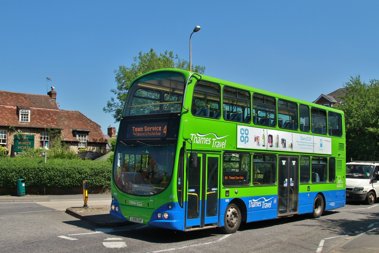 A Thames Travel bus on route 41 passing the White Horse pub in Ock Street, Abingdon-on-Thames, Oxfordshire. The bus is a Volvo B7TL with a Wright Eclipse Gemini body, registration mark LX06 EAF, Thames Travel fleet number 935.